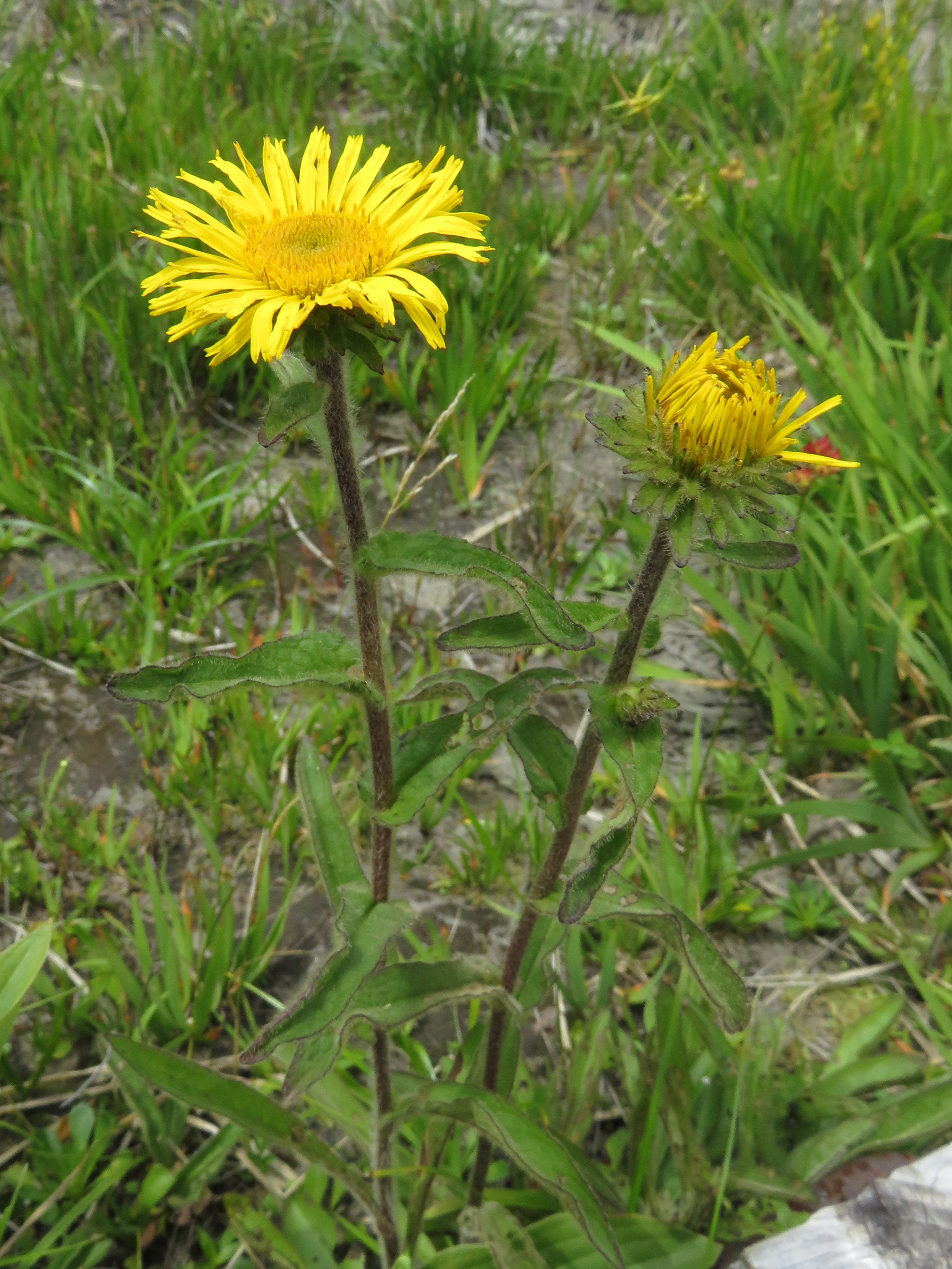 Inula ciliaris, Kumamidaira, Iwate pref., Japan